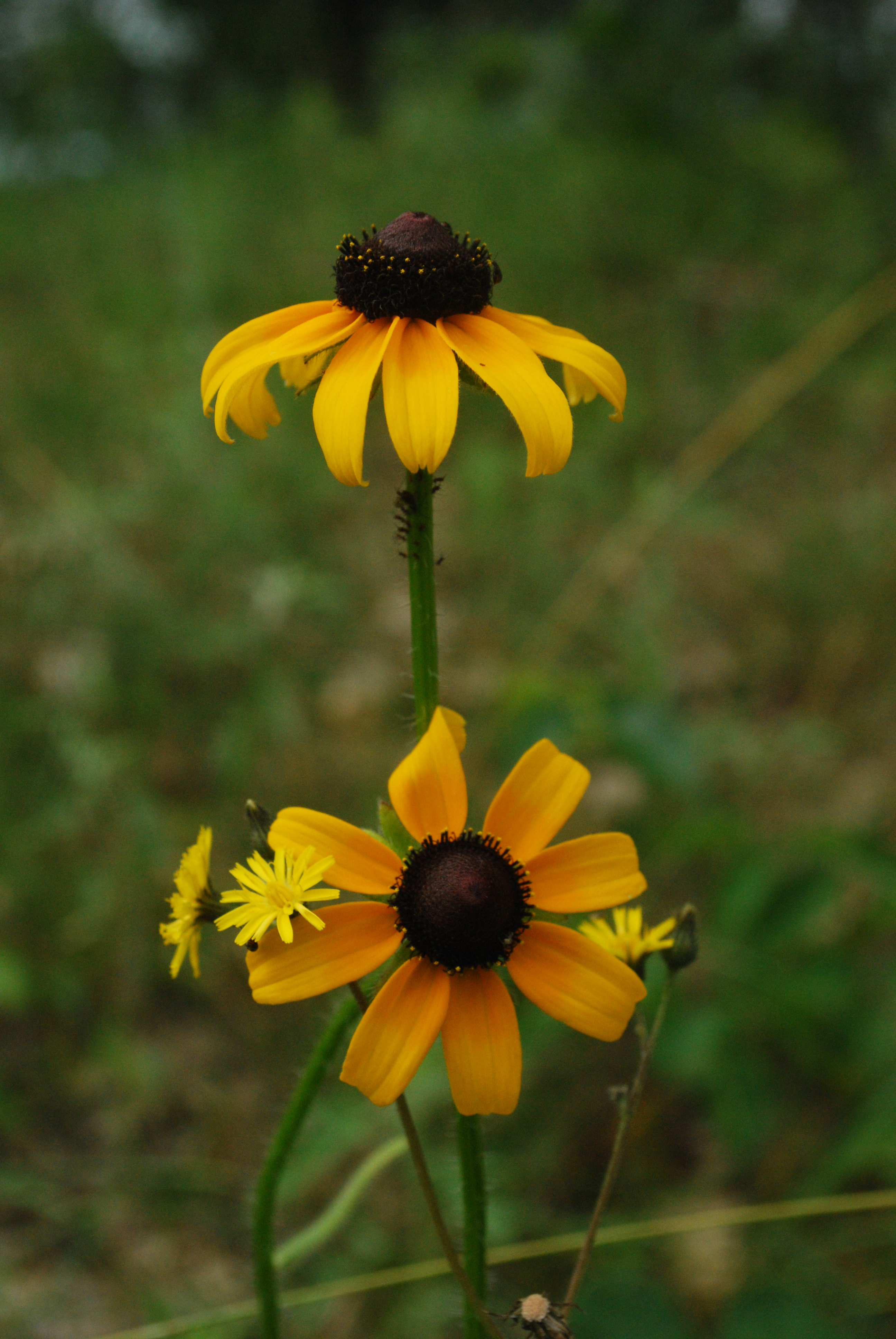 Rudbeckia hirta var. pulcherrima. Brooks Bluff Wisconsin State Natural Area #232 Adams County